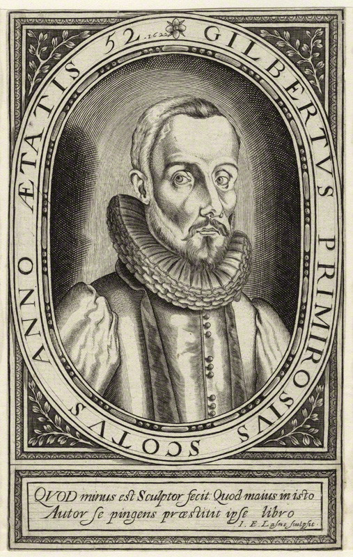 Portrait of Gilbert Primrose (1580?–1641), Scottish Calvinist minister.